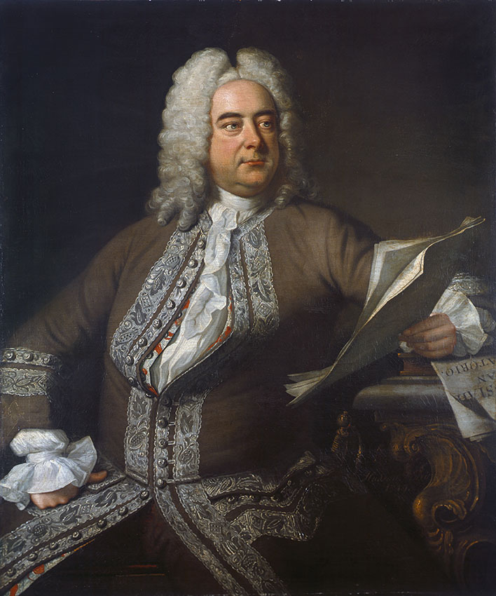 Georg Friedrich Händel, german/british composer